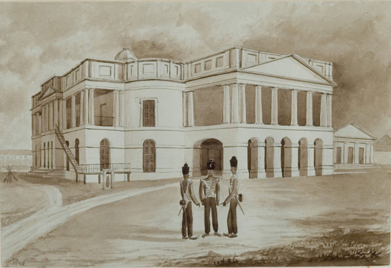 Public Offices, Singapore, sketch by John Turnbull Thomson, created in 1846. Building designed by George Drumgoole Coleman. Image from OUR Heritage